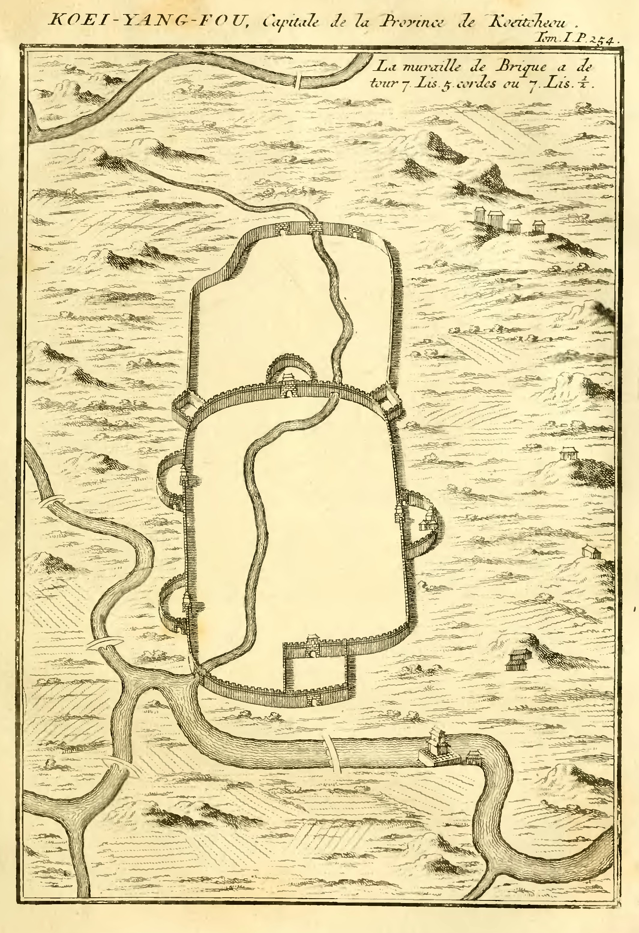 Map of Guiyang, Guizhou, from Description de la Chine, vol 1